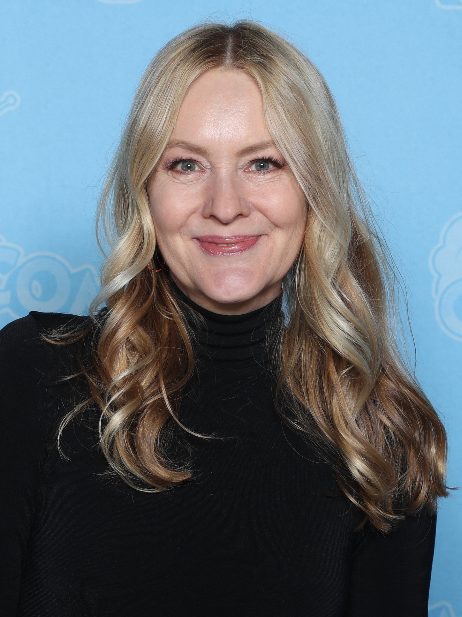 Linda Larkin at GalaxyCon Richmond in 2020